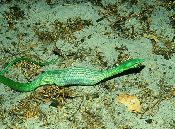 Oxybelis fulgidus in Lençóis Maranhenses National Park, Maranhão State, Northeastern Brazil. Photo by J. P. Miranda.